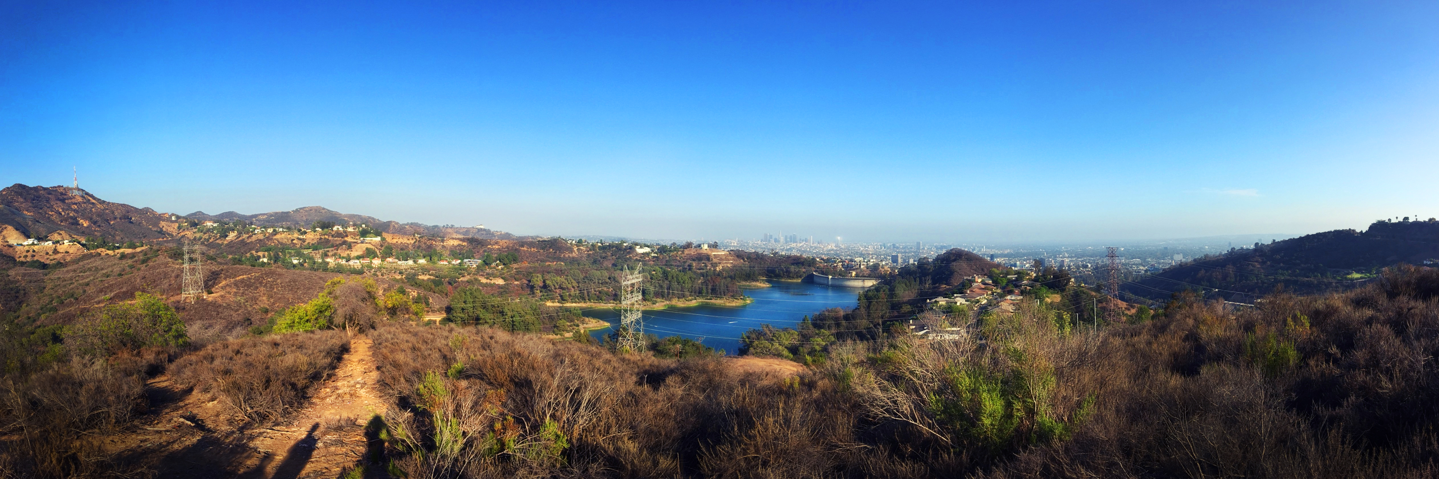 Panoramic photo of the Hollywood Reservoir / Lake Hollywood, the Mulholland Dam, and the Hollywood Sign in August, 2015. Taken from the trail off of Wonder View Drive.